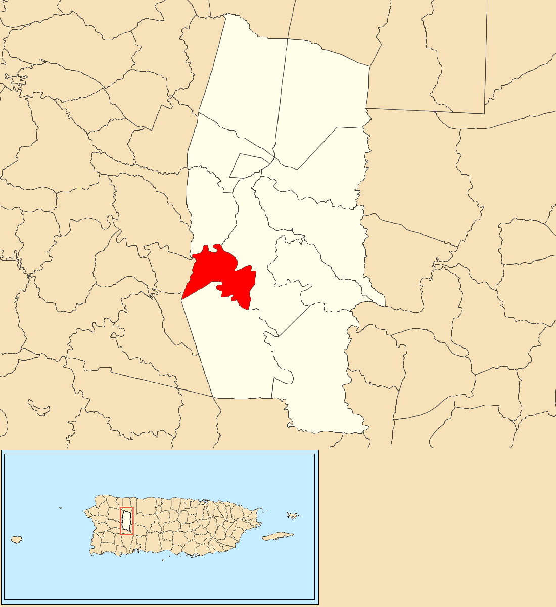 Pezuela, Lares, Puerto Rico locator map